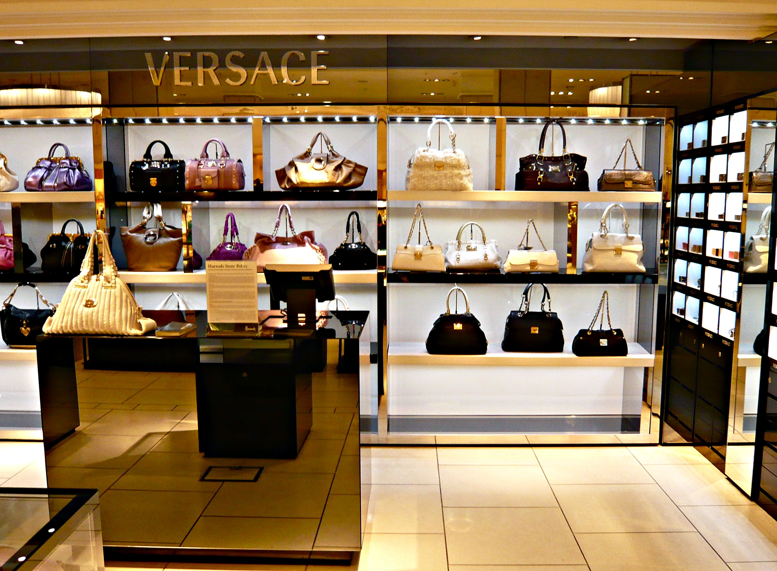 Inside versace store. Shows three shelves holding designer handbags as well as a counter in the middle displaying more.